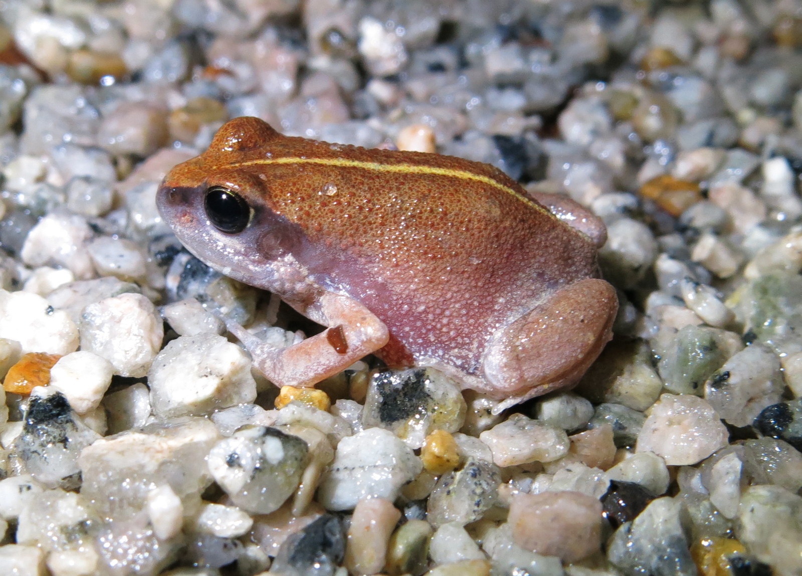 Arthroleptis xenochirus, Mutinondo Wilderness.